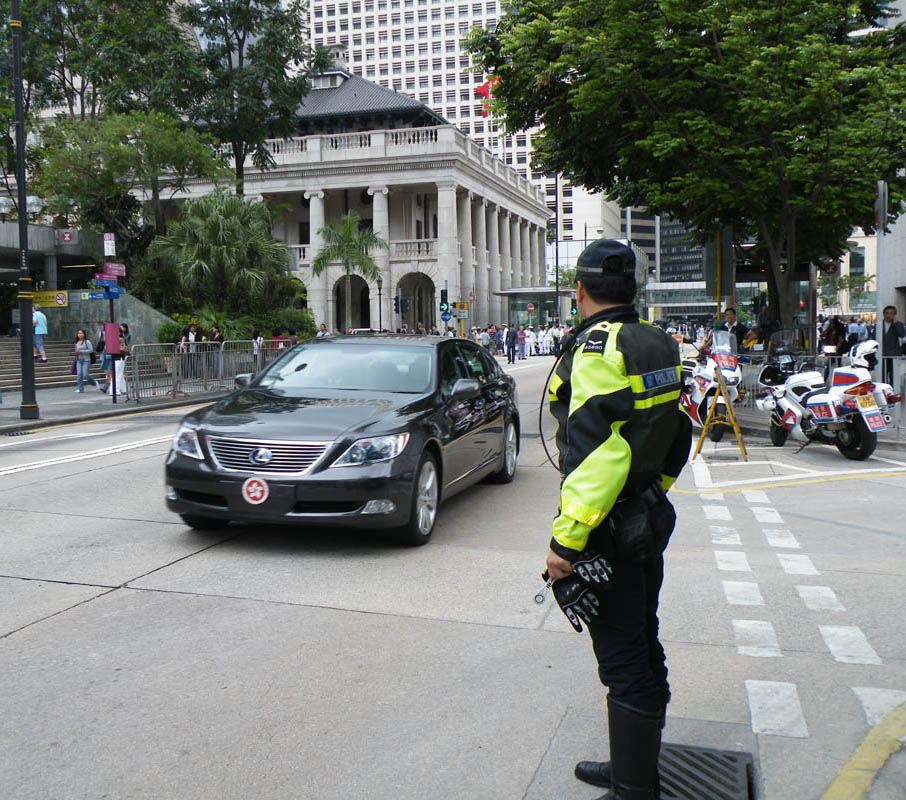 The LEXUS LS600hL - Offical Vehicle of Chief Executive of the Hong Kong Special Administrative Region